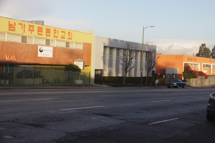 The streets of Historic Filipinotown contain a mix of Hispanic and Korean businesses, as the area is located beside LA’s Koreatown.